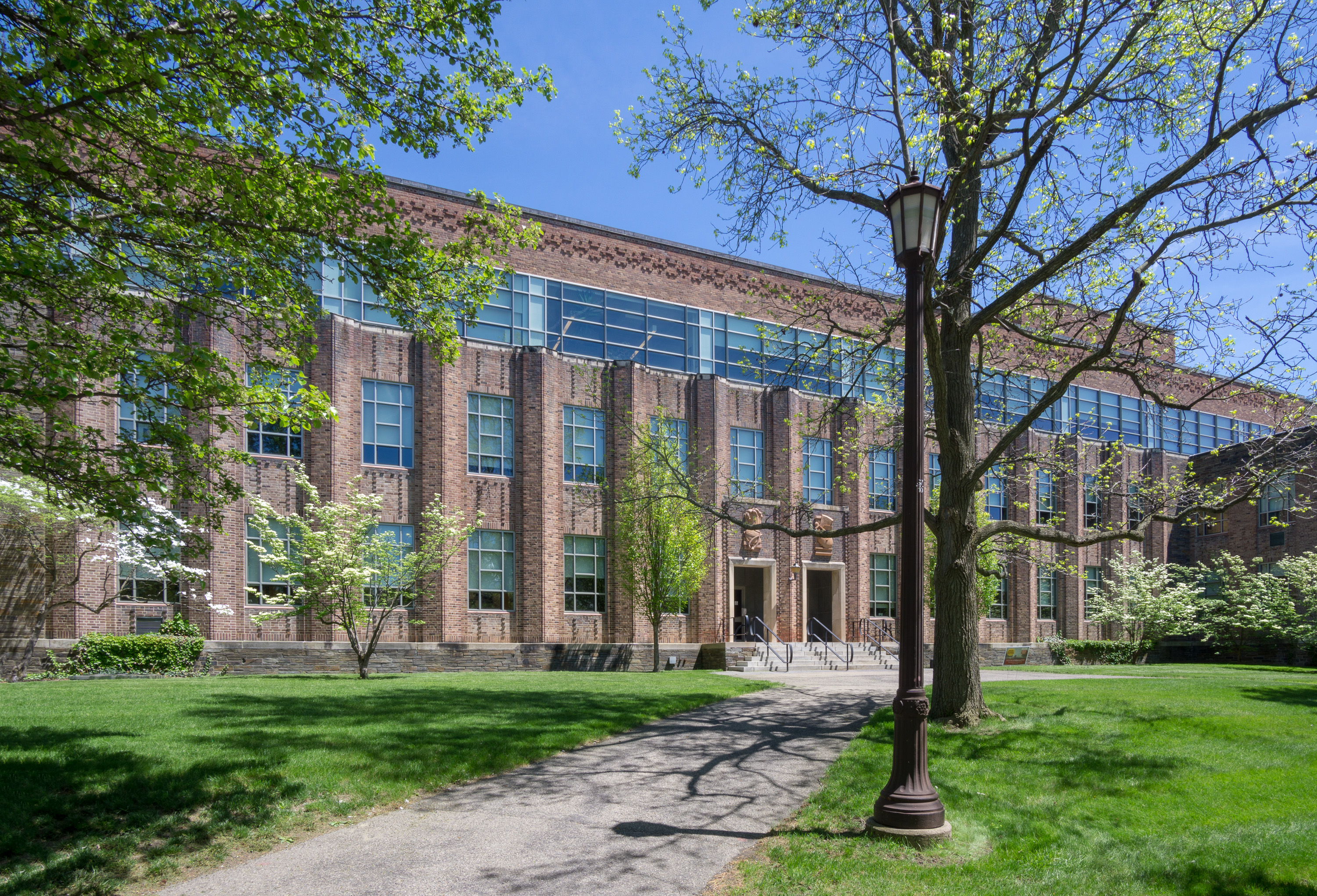 Franklin W. Olin Jr. Hall, Chemical Engineering building (1941, Shreve, Lamb & Harmon). Along Ho Plaza at Campus Road, across from Cornell Health. Cornell University, Ithaca, NY